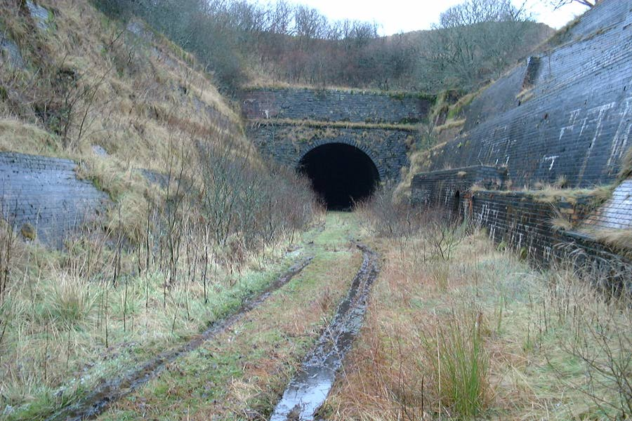 South portal of Whitrope Tunnel on the Waverley Route.